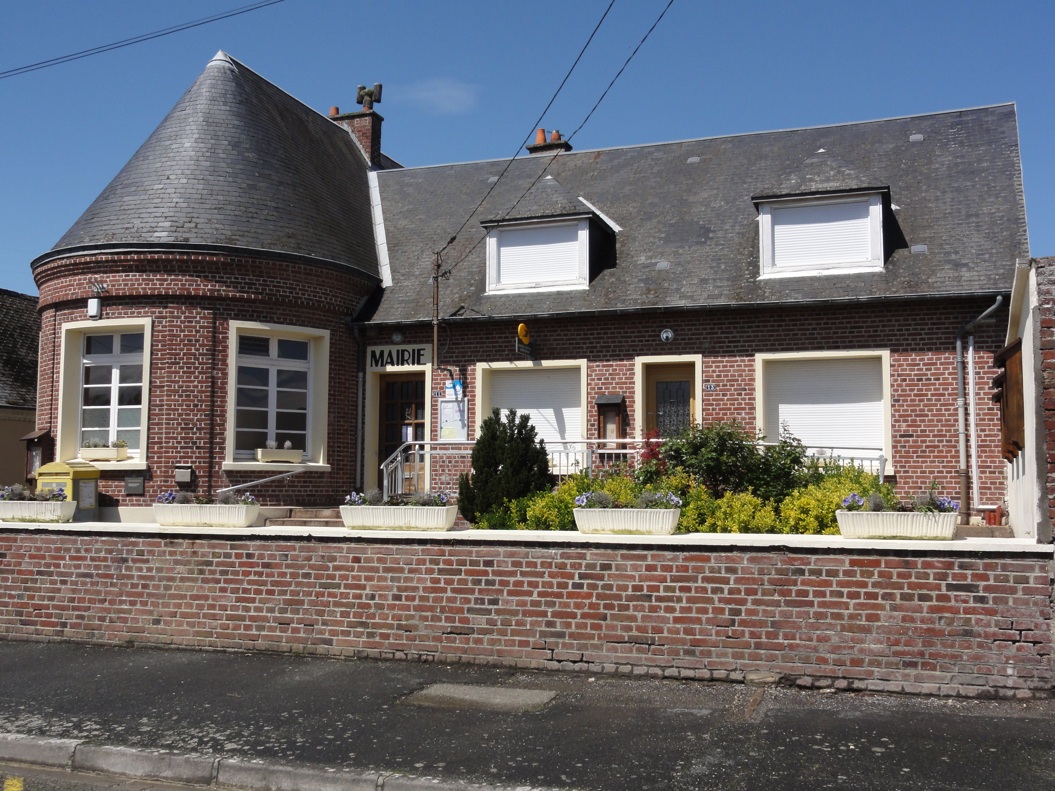 Mézières-sur-Oise (Aisne) mairie